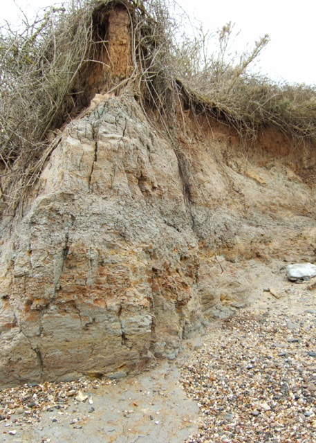 Detail of cliffs at the Naze The cliffs at the Naze are a geological Site of Special Scientific Interest. They are constantly slumping and eroding due to layers of Red Crag and Tertiary and Quaternary sediments overlaying London Clay. Due to the difference in their consistency and age these erode at different rates and reveal many different sorts of fossil. The London Clay can be seen running out into the beach at the base of the cliff. This material is about 50 million years old and is renowned for its early bird fossils, hence the site's SSSI designation.